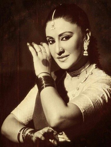 Nighat Chaodhry, An exponent of Eastern mysticism